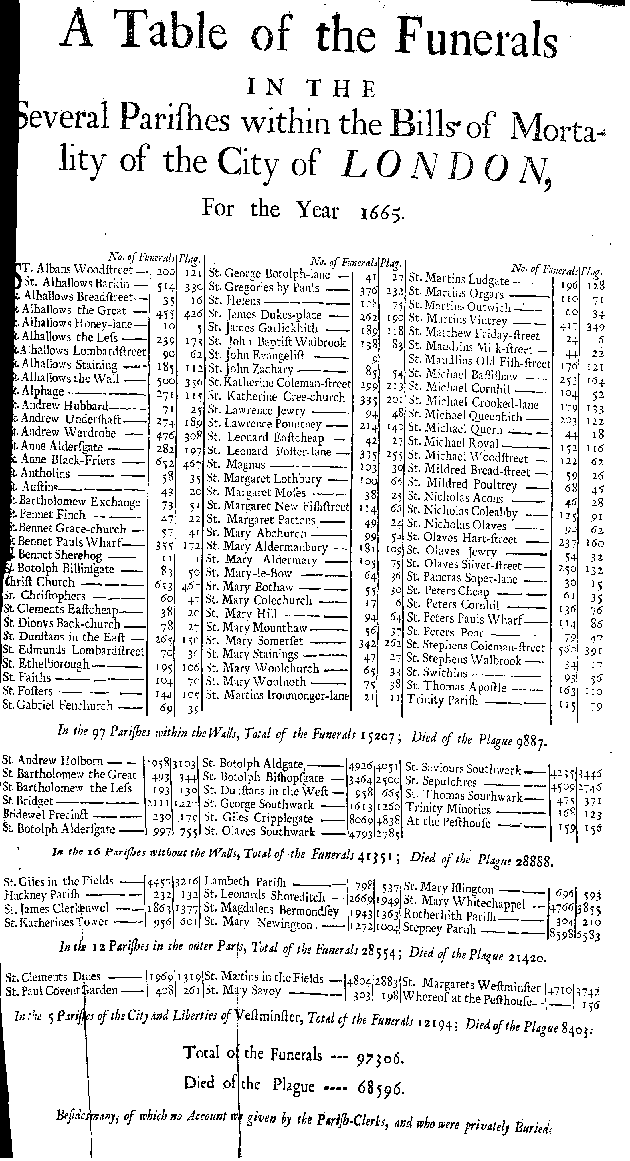 A Table of the Funerals IN THE Several Parishes within the Bills of Mortality of the City of LONDON